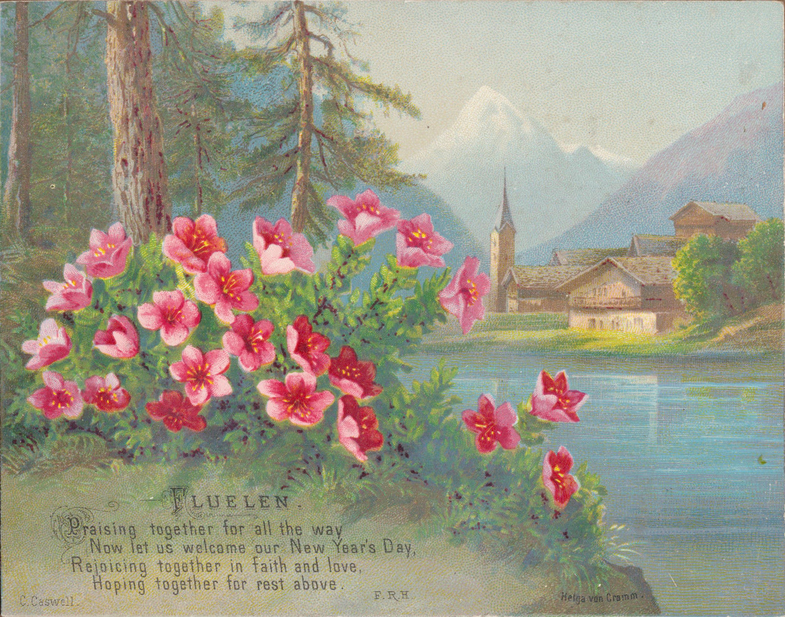 Flüelen, Uri, by Helga von Cramm, with prayer by F.R. Havergal, chromolithograph, c. 1880.